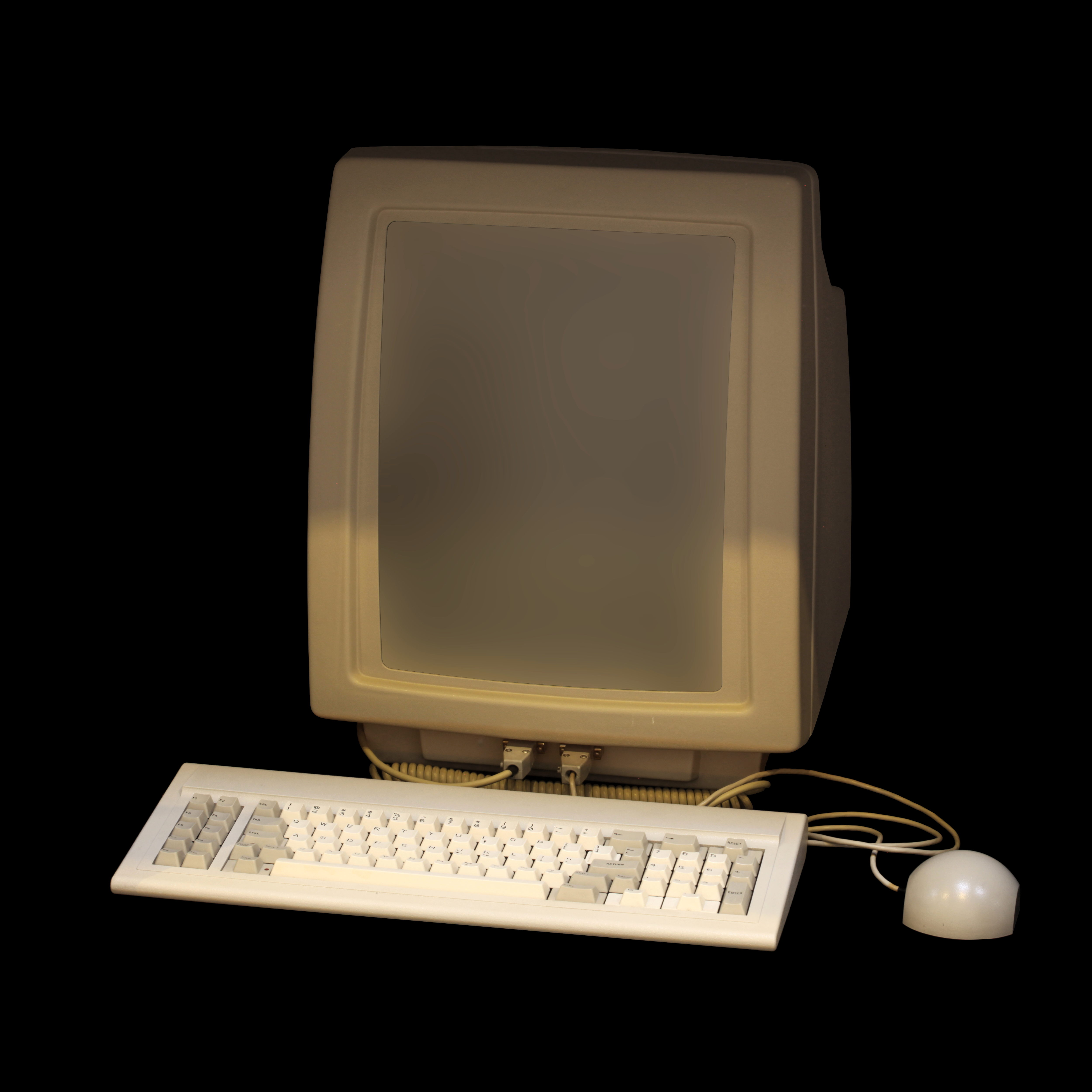 User:Rama/Bolo/Lilith The making of this document was supported by Wikimedia CH.(Submit your project!) For all the files concerned, please see the category Supported by Wikimedia CH.